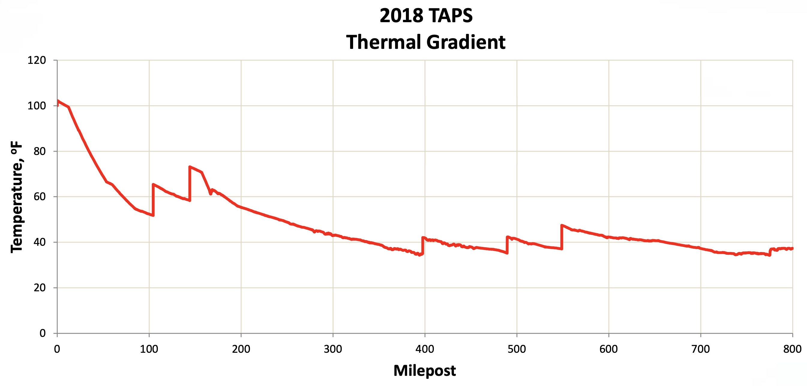 A chart of the temperature of the oil inside the Trans-Alaska Pipeline System as relative to the distance from Pump Station 1